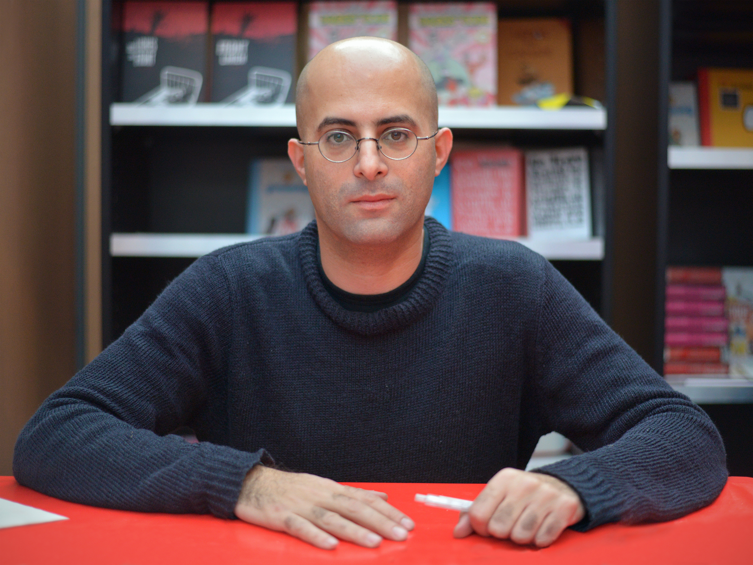 Comics artist Asaf Hanuka at Angoulême International Comics Festival in 2015.